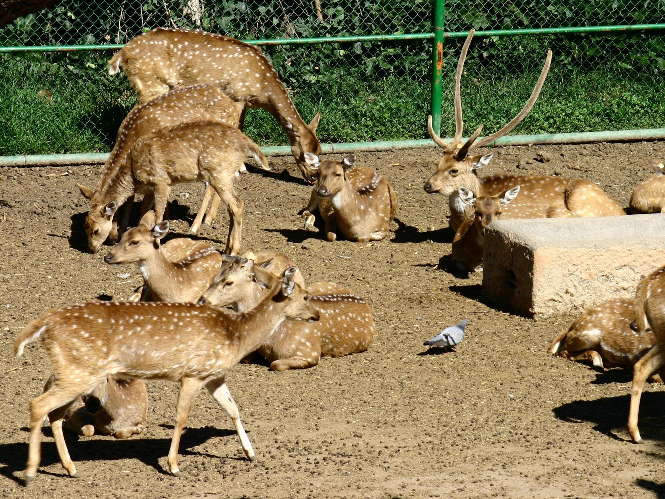 Axis axis, Zoo of Barcelona